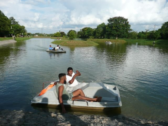 image of gampaha botanical garden